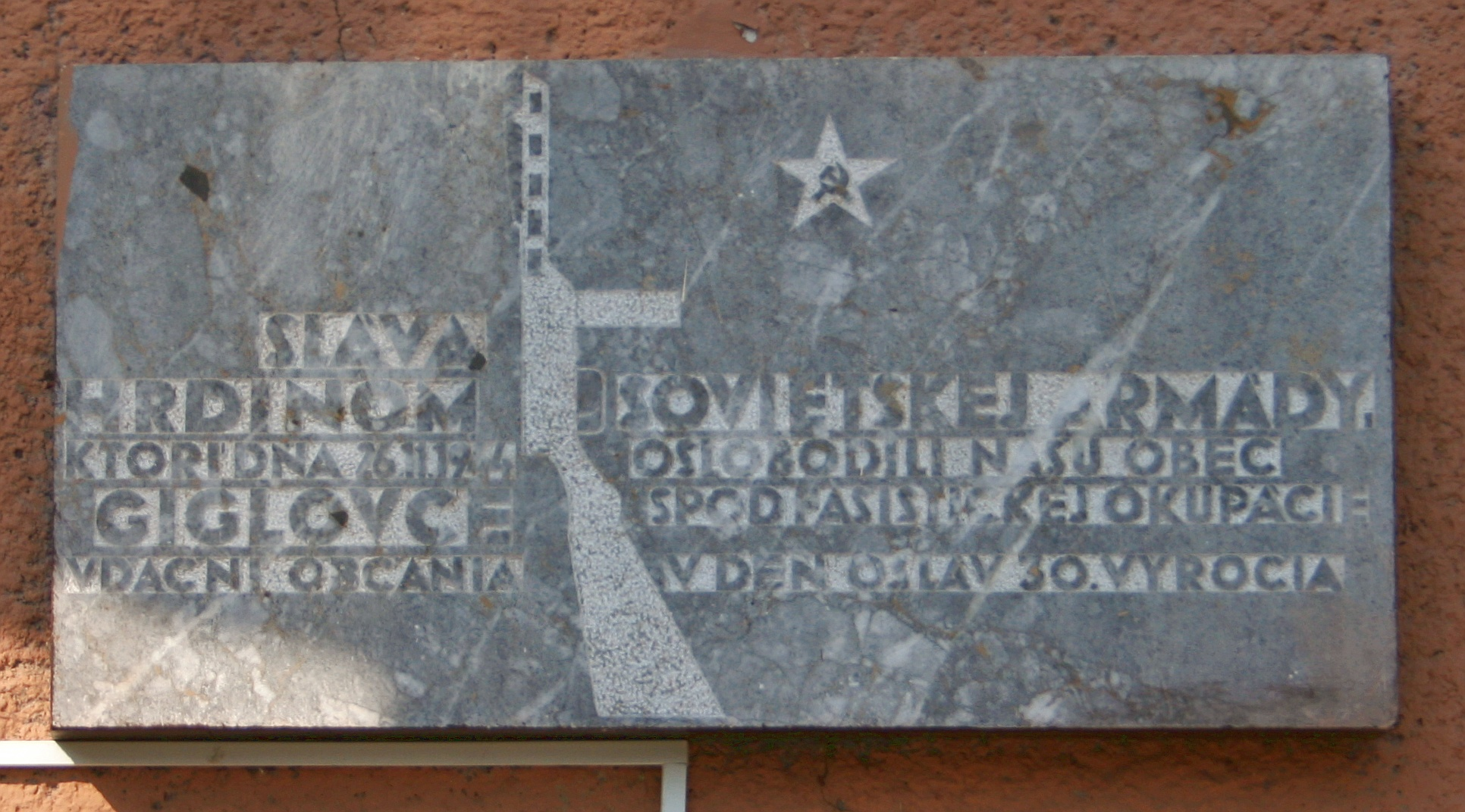 memorial in Giglovce, Slowakia